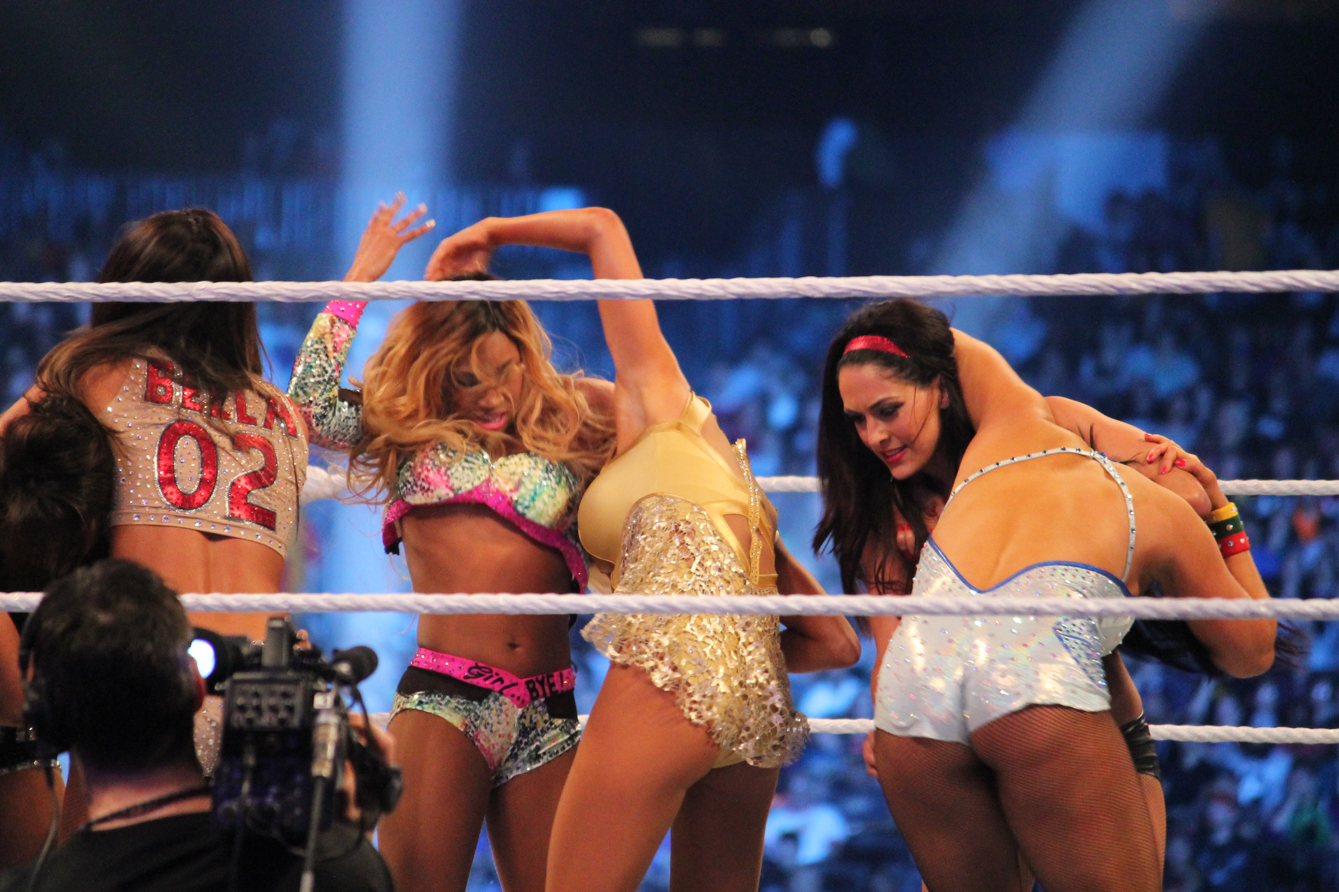 Brie Bella, Cameron and Nikki Bella prepare to apply some suplexes.